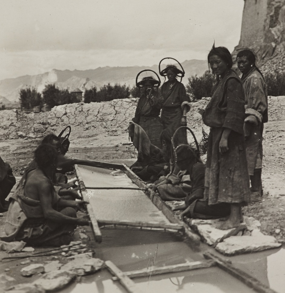 A large-size ‘ﬂoating’ mould, constructed with a wooden frame and attached woven textile, placed in water (a stream) in Gyantse, c. 1910–1920.